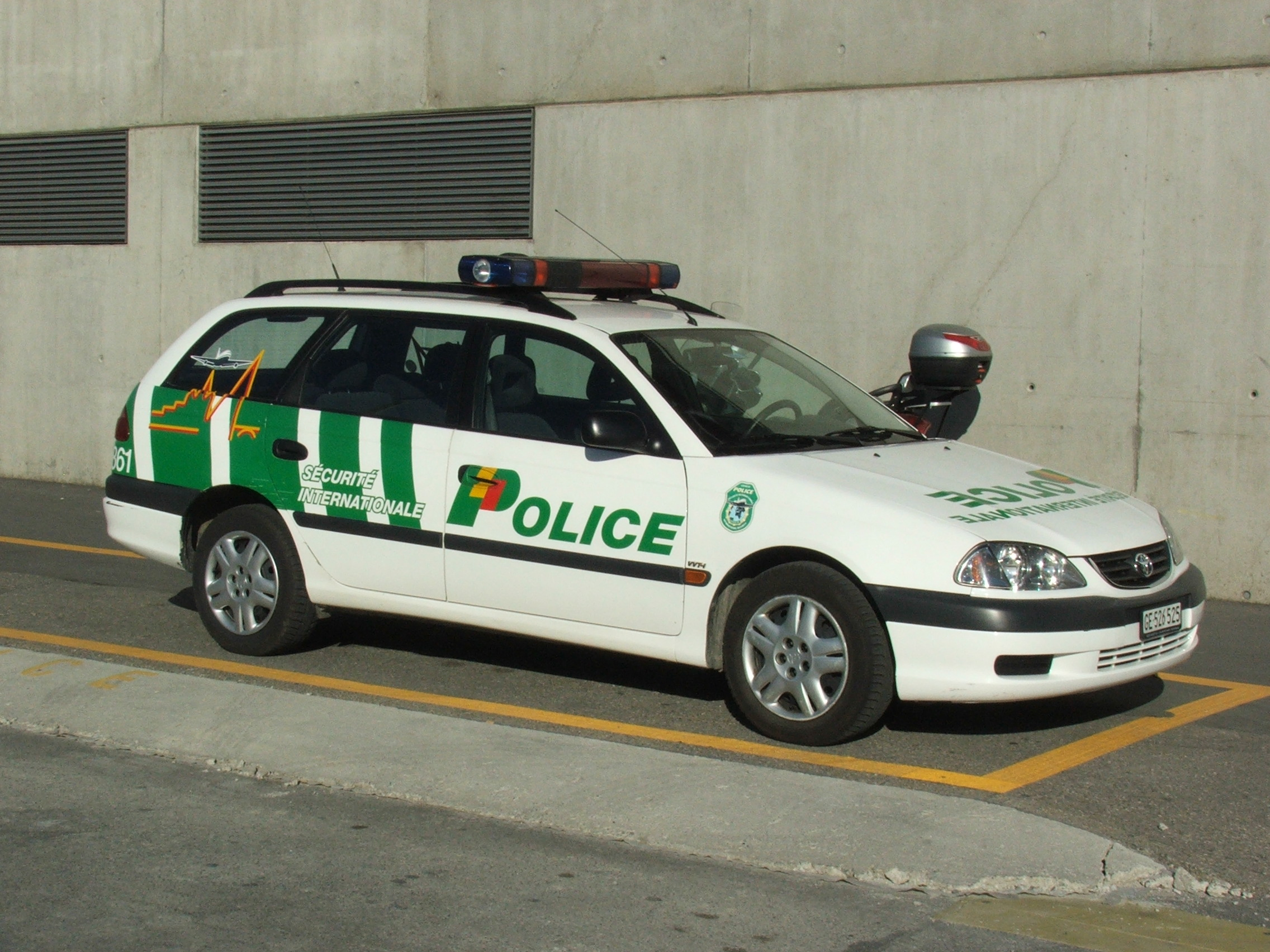 Toyota Avensis vehicle of Airport police - Cantonal Police of Geneva, Switzerland